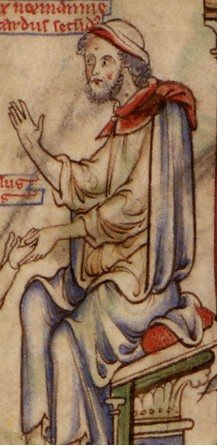 Richard II of Normandy